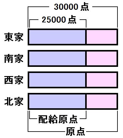 A Diagram of the difference between genten and haikyu-genten in Japanese mahjong.